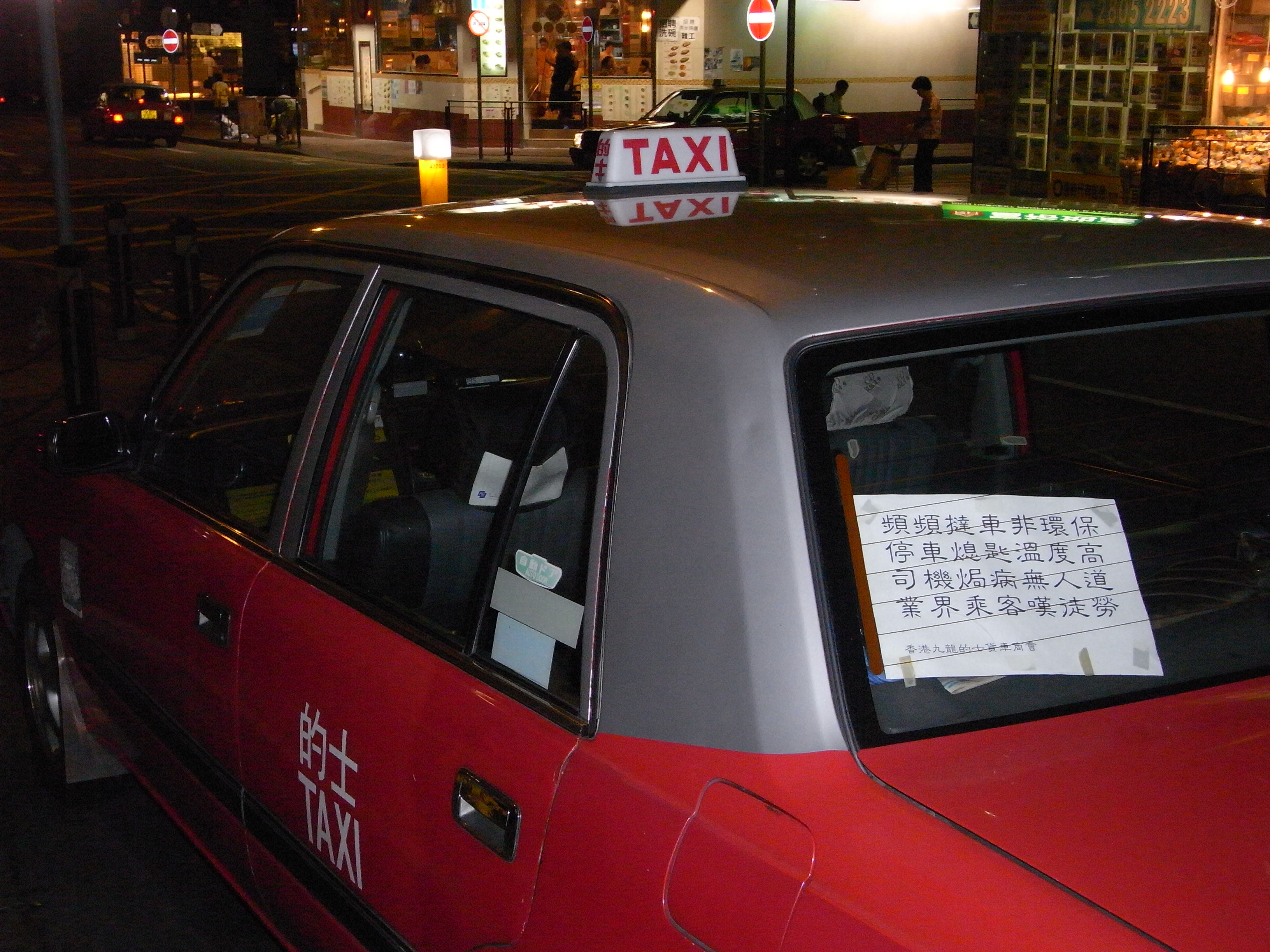 上環 停車熄匙的社會反應